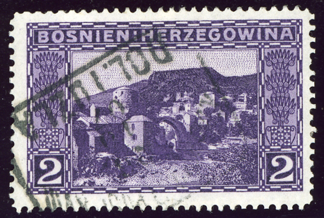 Bosnia and Herzegovina 2 heller stamp, issue 1906, image of Mostar, cancelled at DOL.TUZLA in 1907.